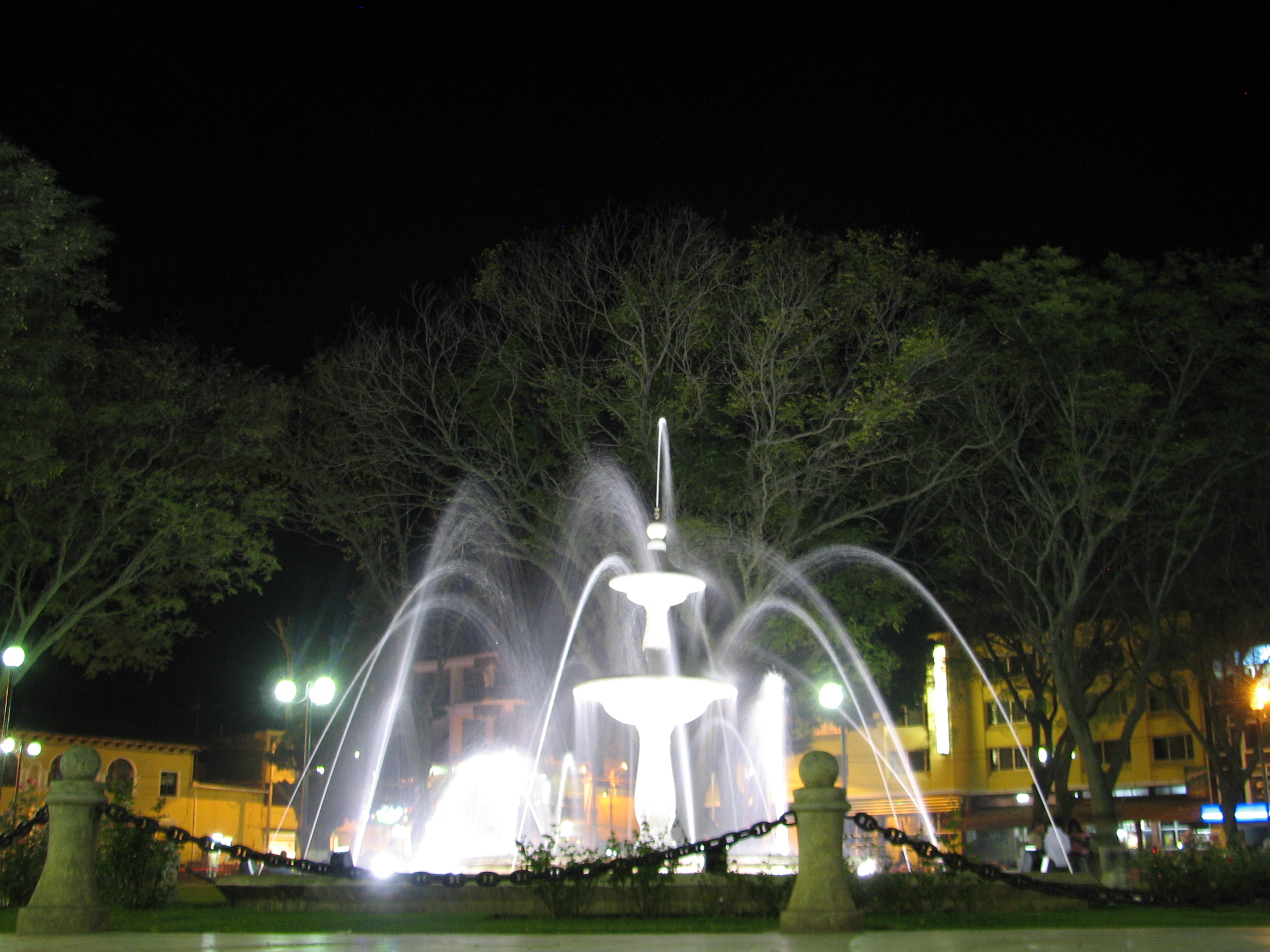 Fountain by night on central plaza in Huánuco/Huánuco/Huánuco, Peru.